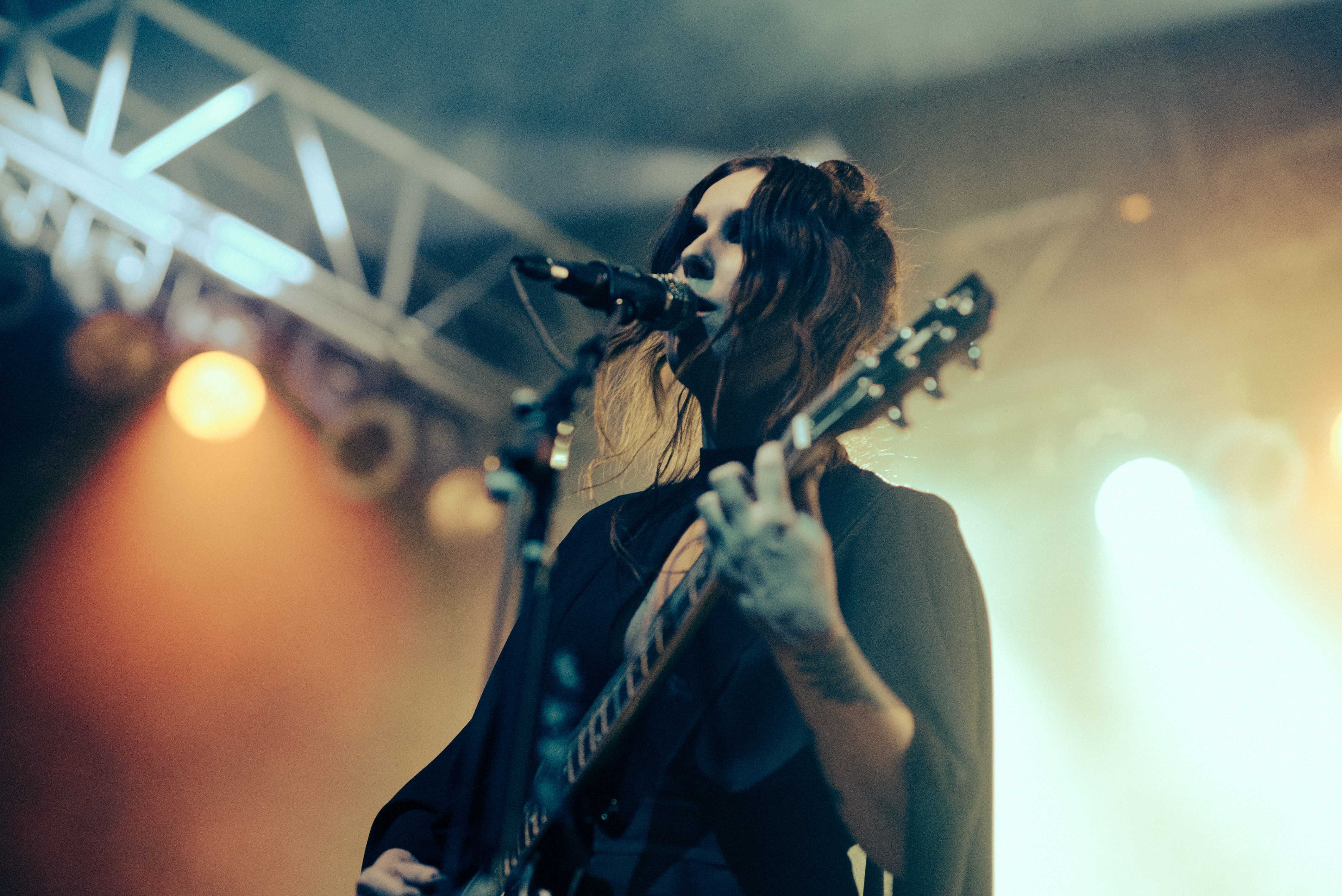 AdamWright-Treefort-2016-ChelseaWolfe-10